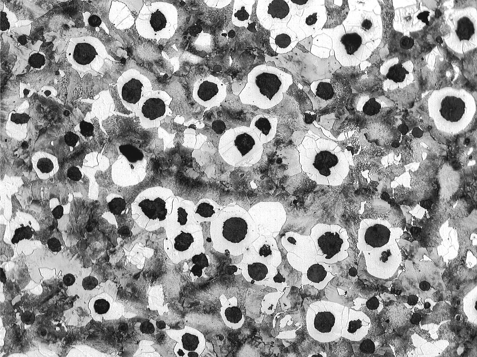 Cast iron EN-GJS-500-7, etched 3% Nital, perlite + (bull's eye) ferrite / spherical graphite, magnification 100:1 (if printed 12 x 9 cm)